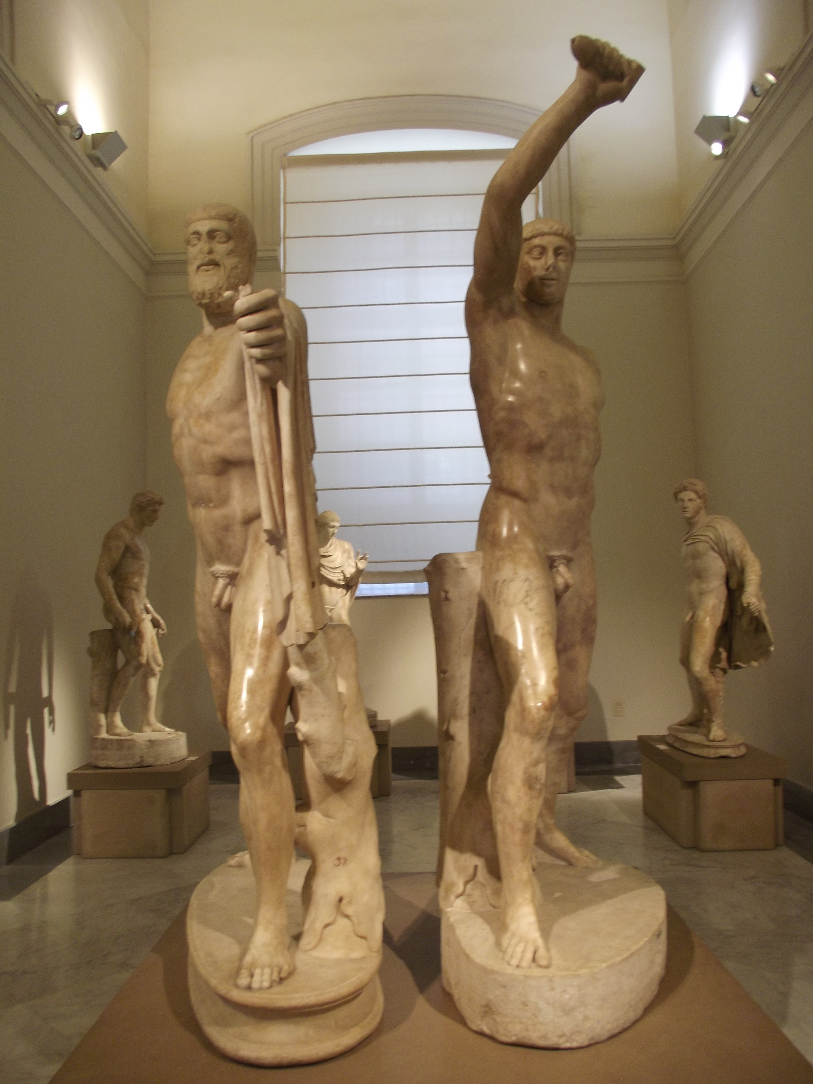 Statue of Harmodius and Aristogeiton, Roman copy of Greek bronze, Naples National Archaeological Museum.